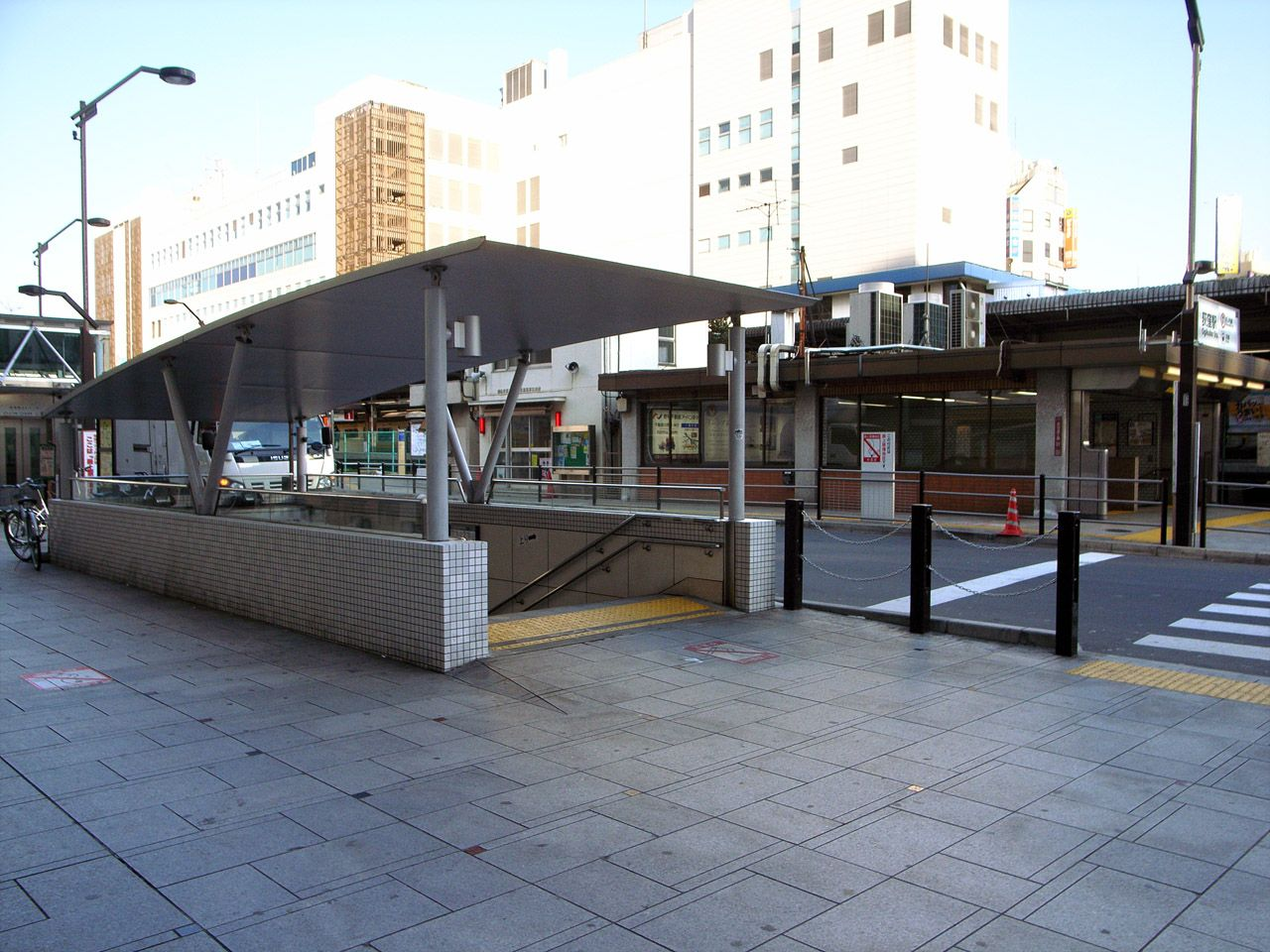 South b Entrance of Ogikubo Station, Suginami-ku, Tokyo, Japan